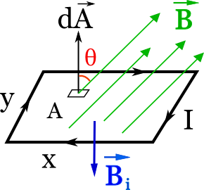 Faraday's induction law for a closed loop